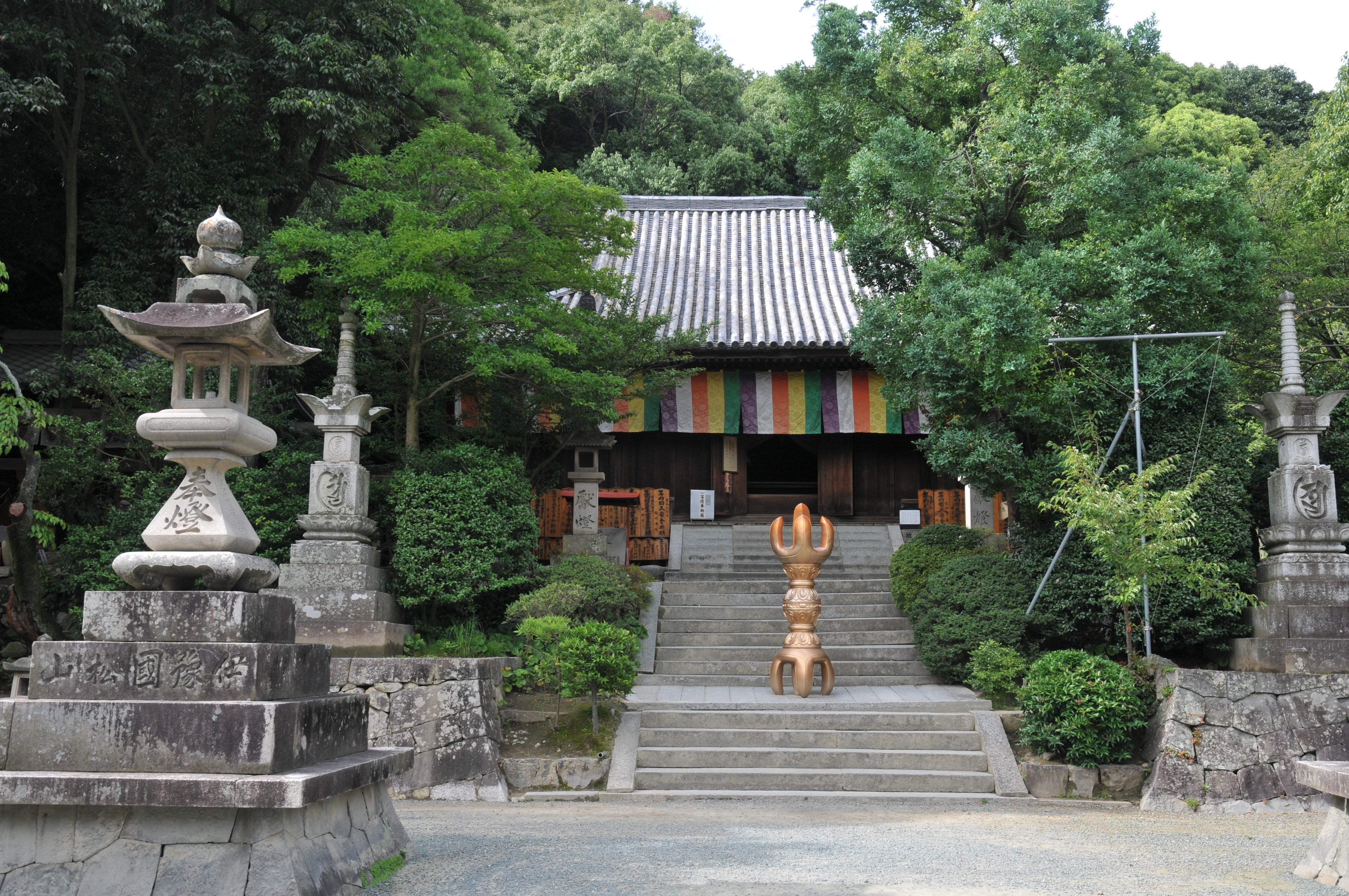 Hondō (Main Hall) (Japan's national important cultural property), Ishite-ji temple, Ehime Pref., Japan